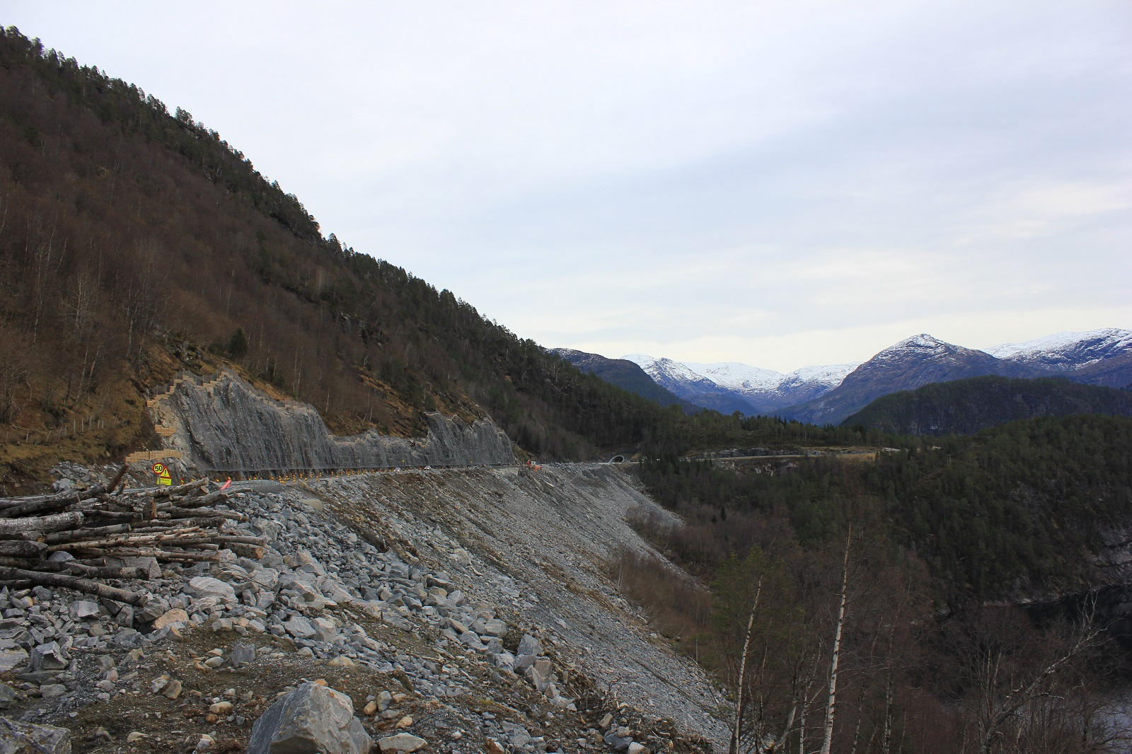 New part of Kvivsvegen